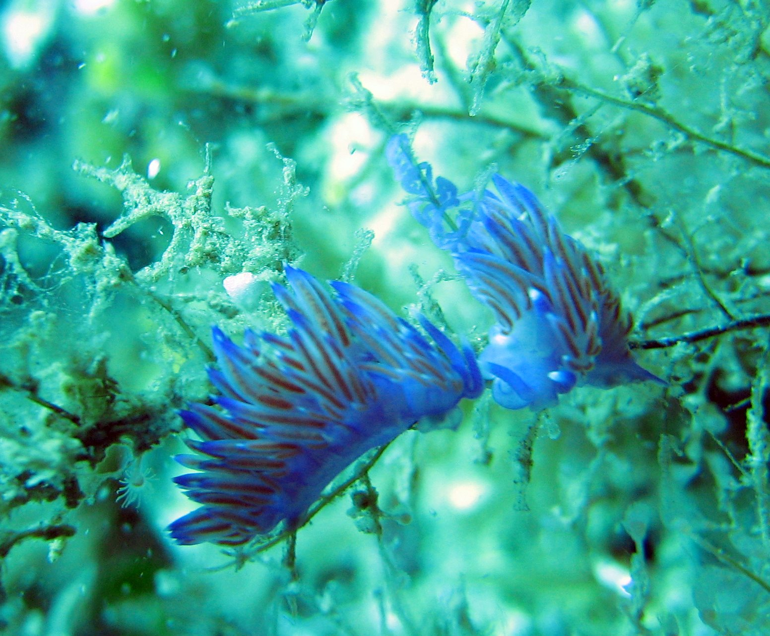 A Couple of Flabellina affinis with eggs under natural light in Bali (Crete)